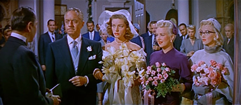 Cropped screenshot of William Powell, Lauren Bacall, Betty Grable and Marilyn Monroe in the trailer for the film How to Marry a Millionaire